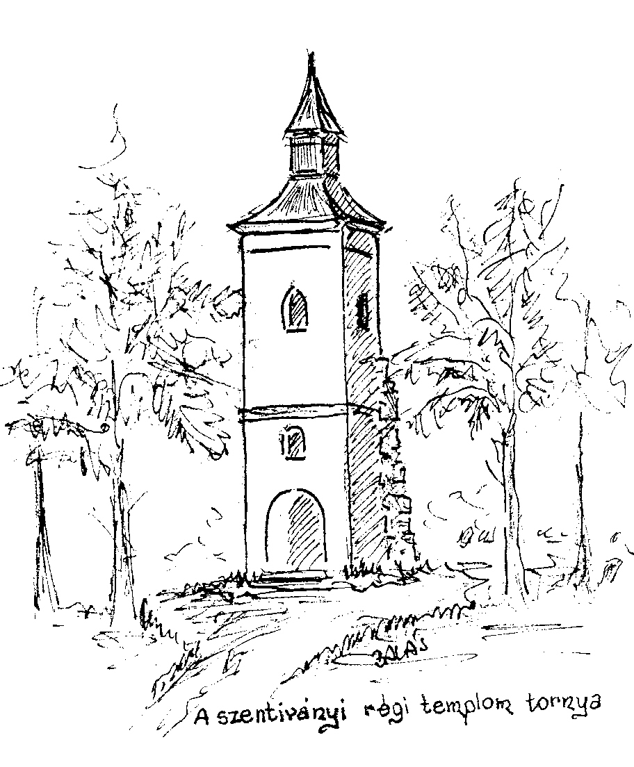 Old church tower, Cserhátszentiván, Hungary.